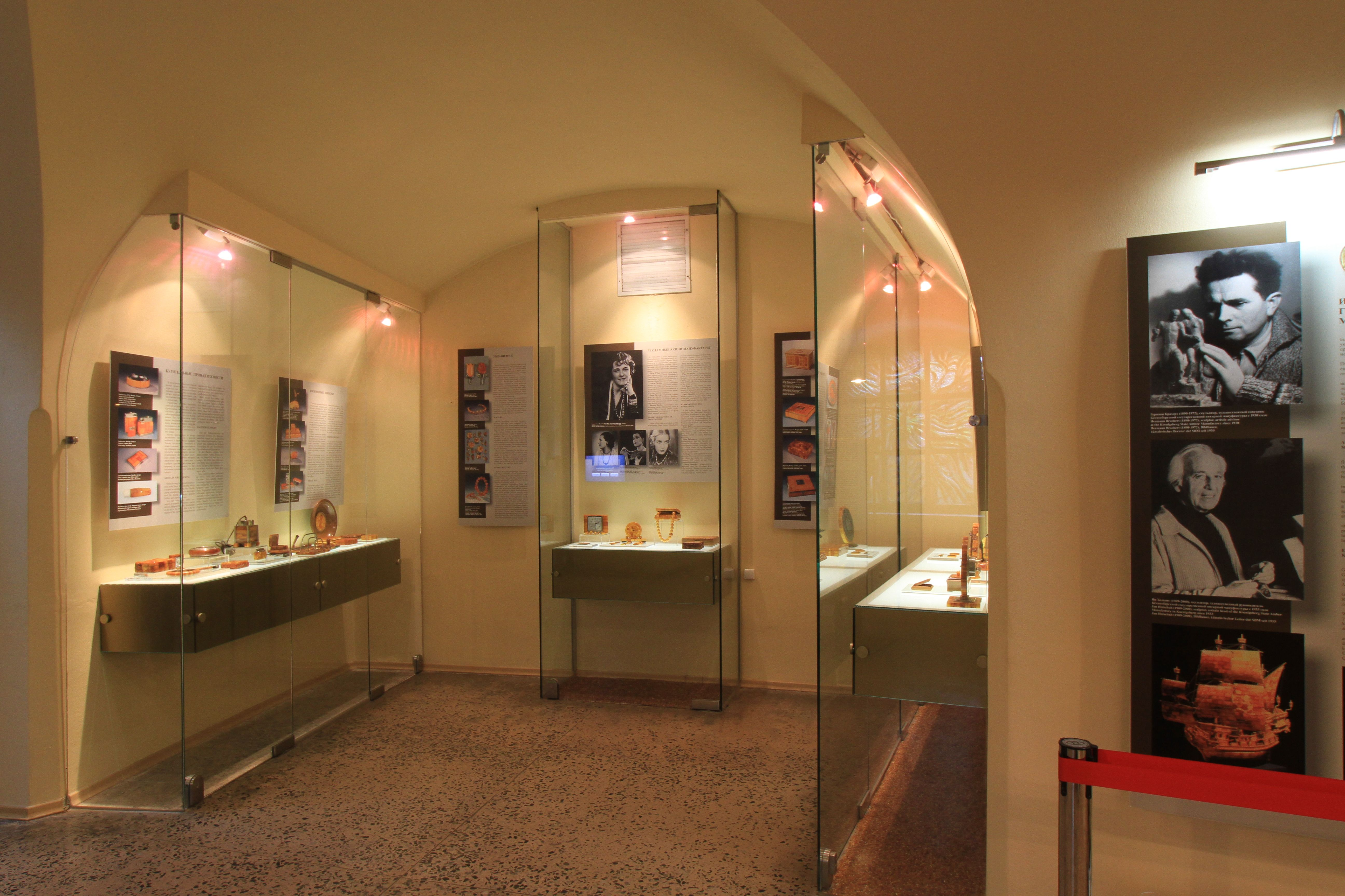 Exosition: Amber factory Königsberg (before Worldwar II)